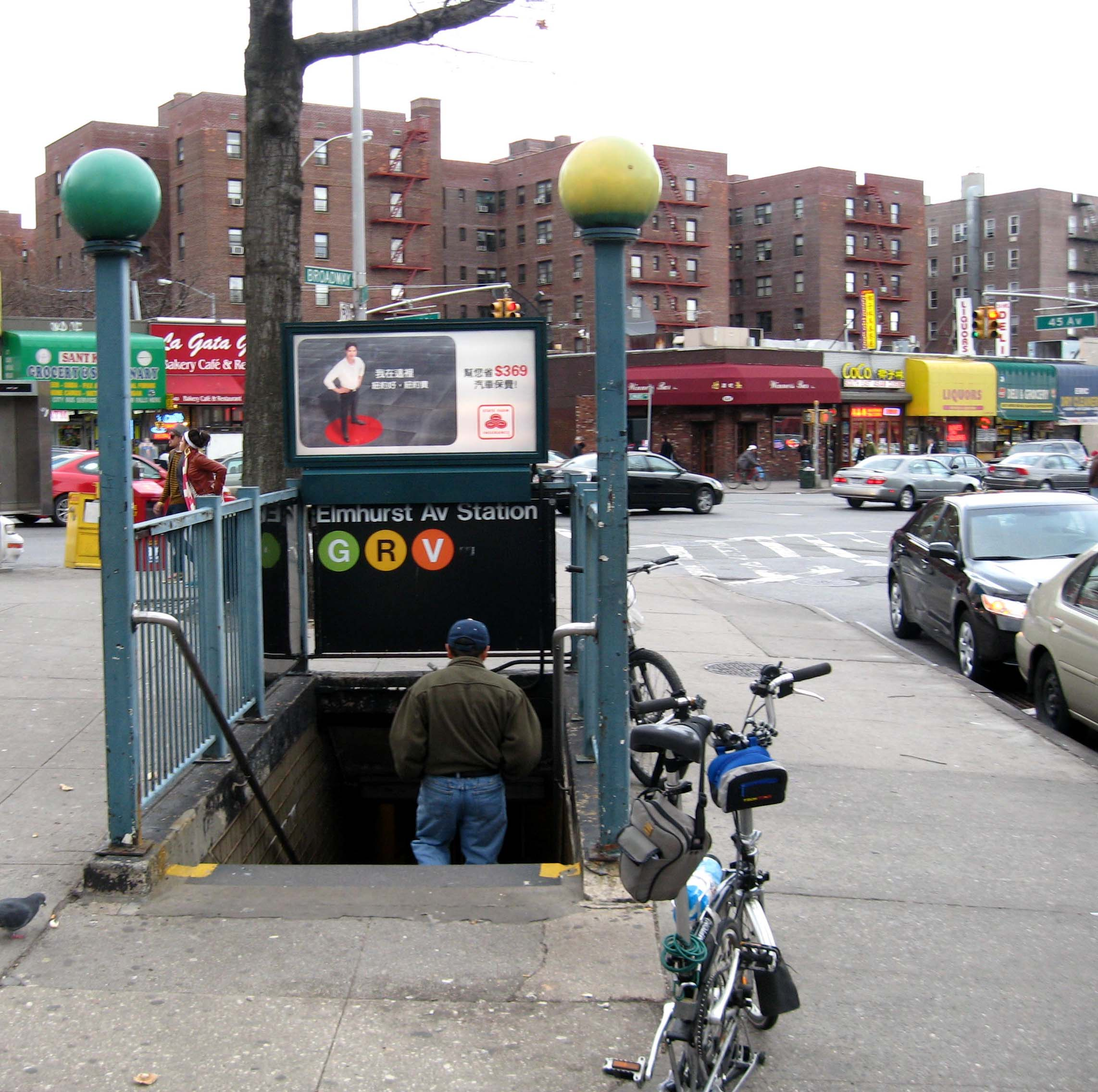 Looking east along 45th Avenue, at the southeastern (railroad north) staircase of Elmhurst Avenue (IND Queens Boulevard Line) on Broadway, on a cloudy late afternoon in early spring.